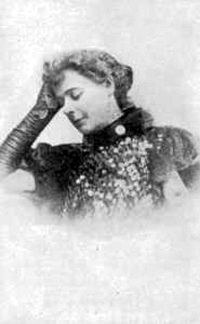 Photo of Guy d'Hardelot (alias of Helen Rhodes, née Guy), (1858-1936), French composer - Source: (Original image enhanced)